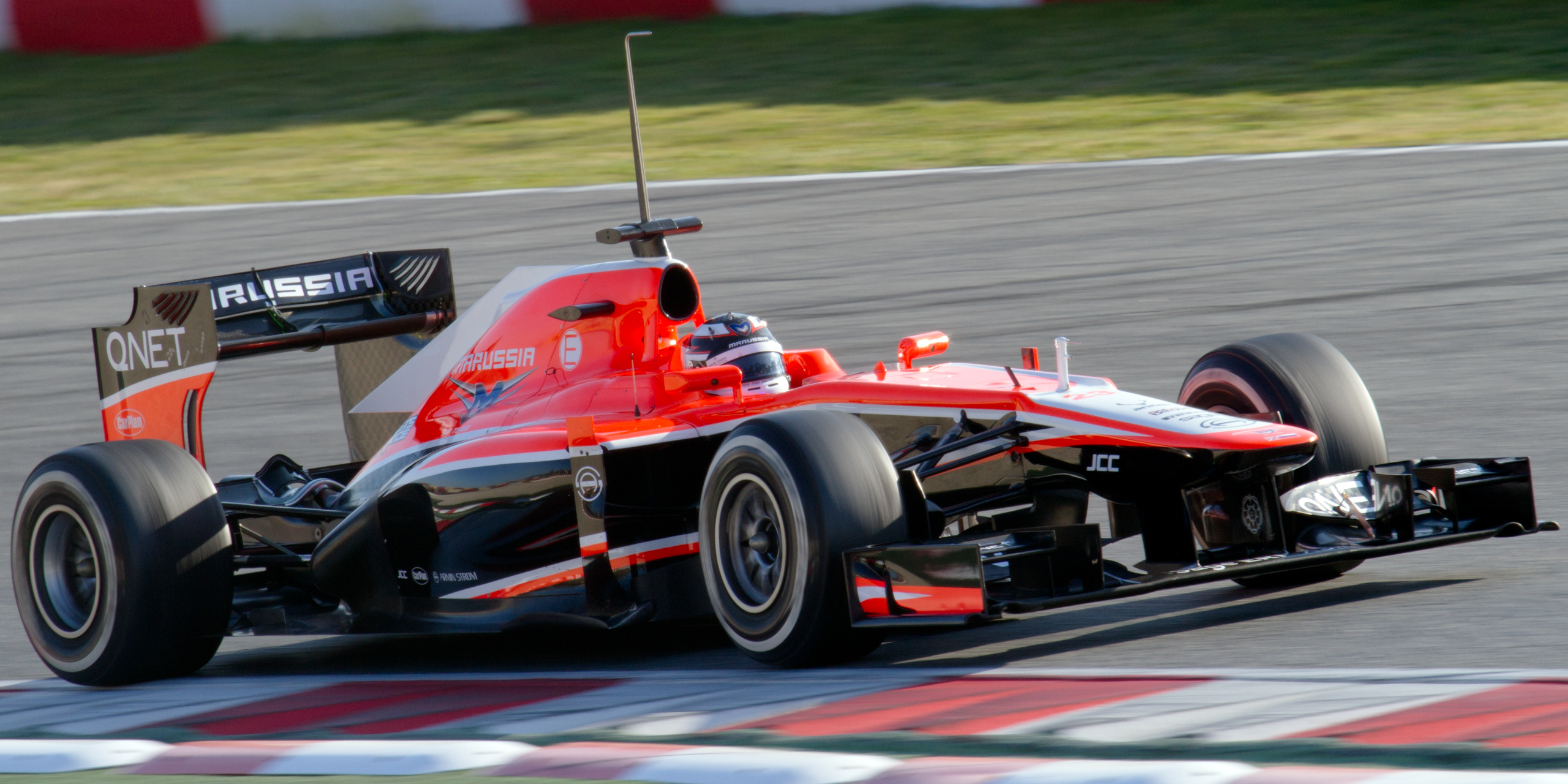 Formula One 2013 Catalonia test (19-22 February): Max Chilton (Marussia)